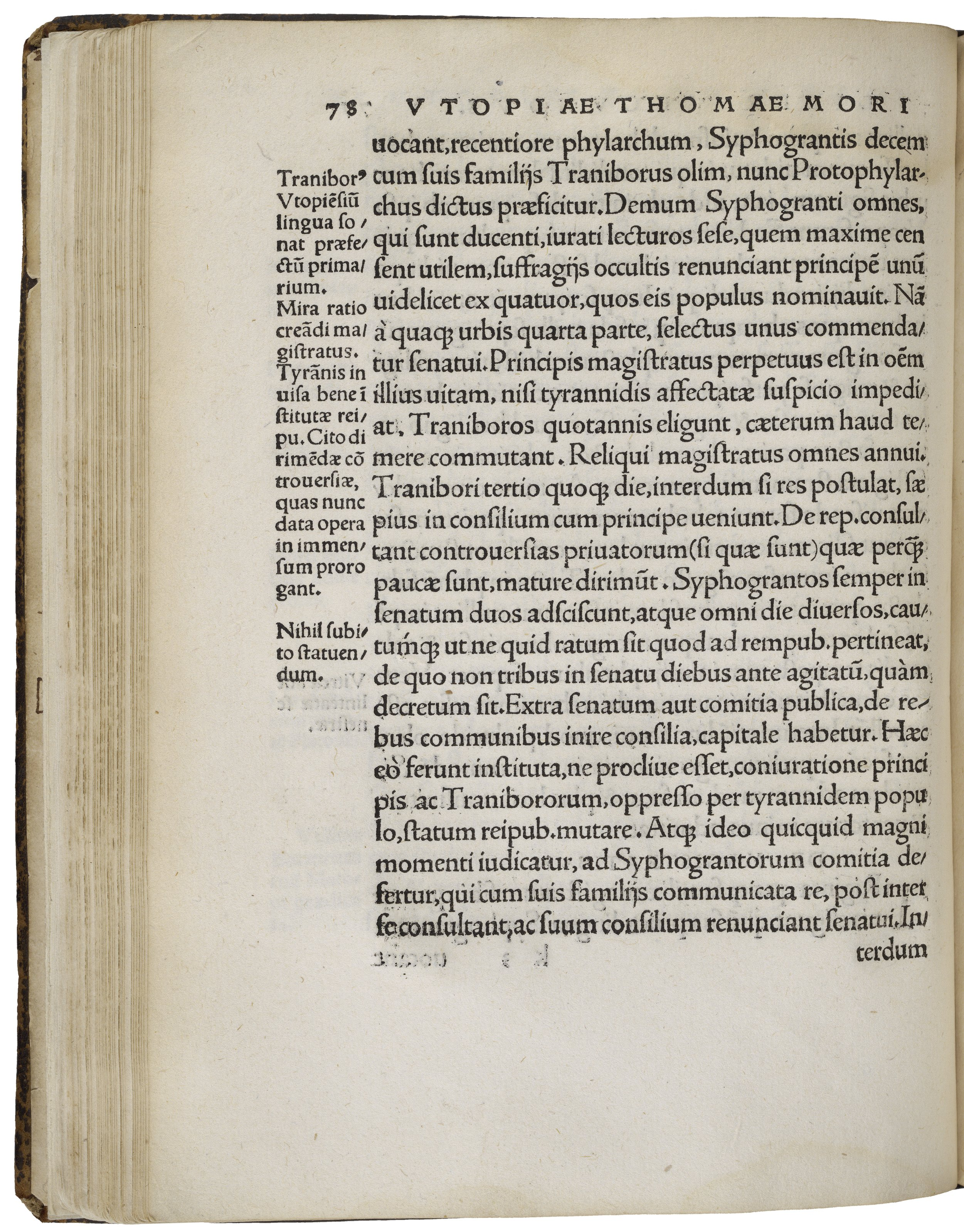 This the page 78 of Thomas More's Utopia (november 1518)